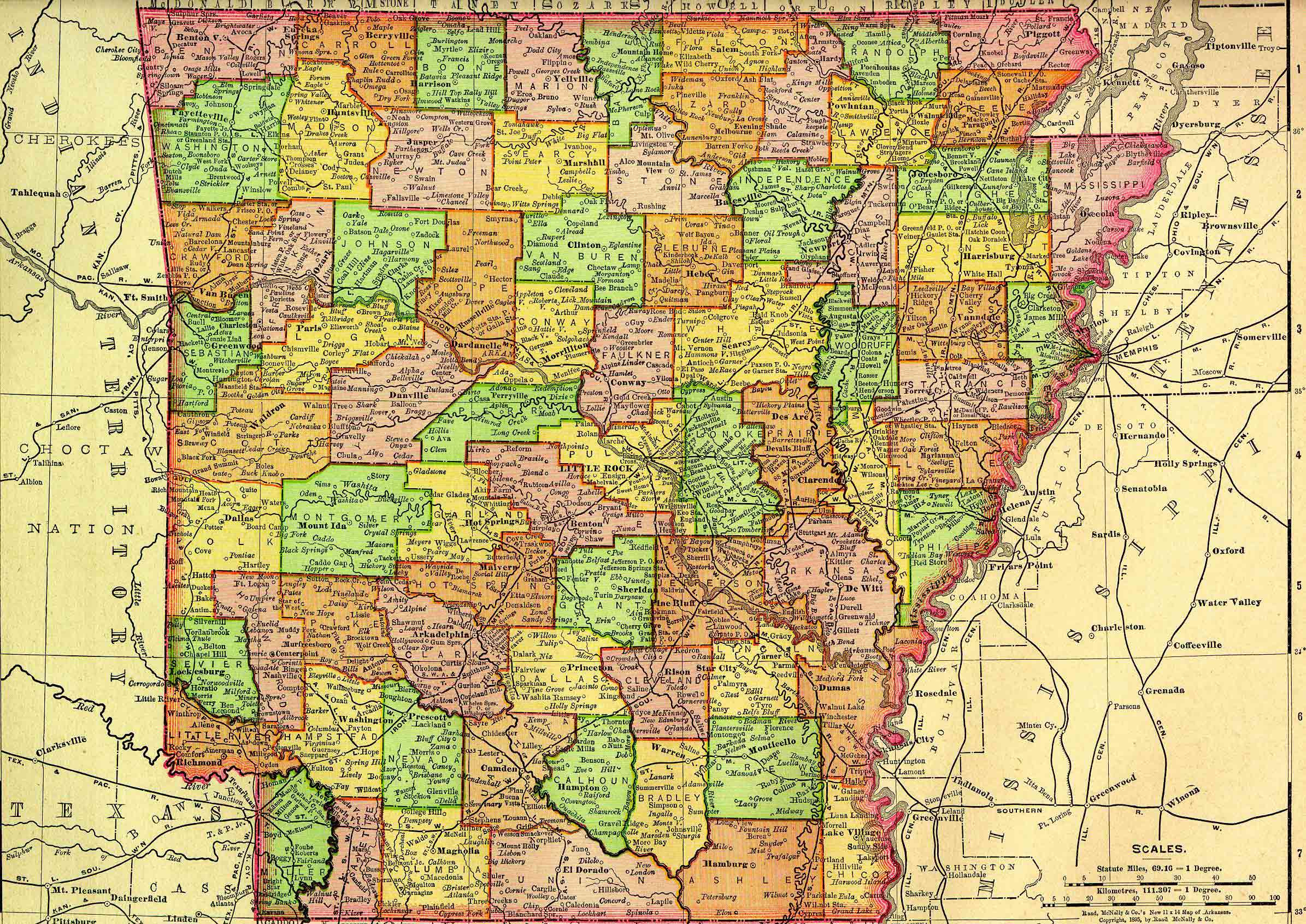 Rand McNally, The New 11 x 14 Atlas of the World